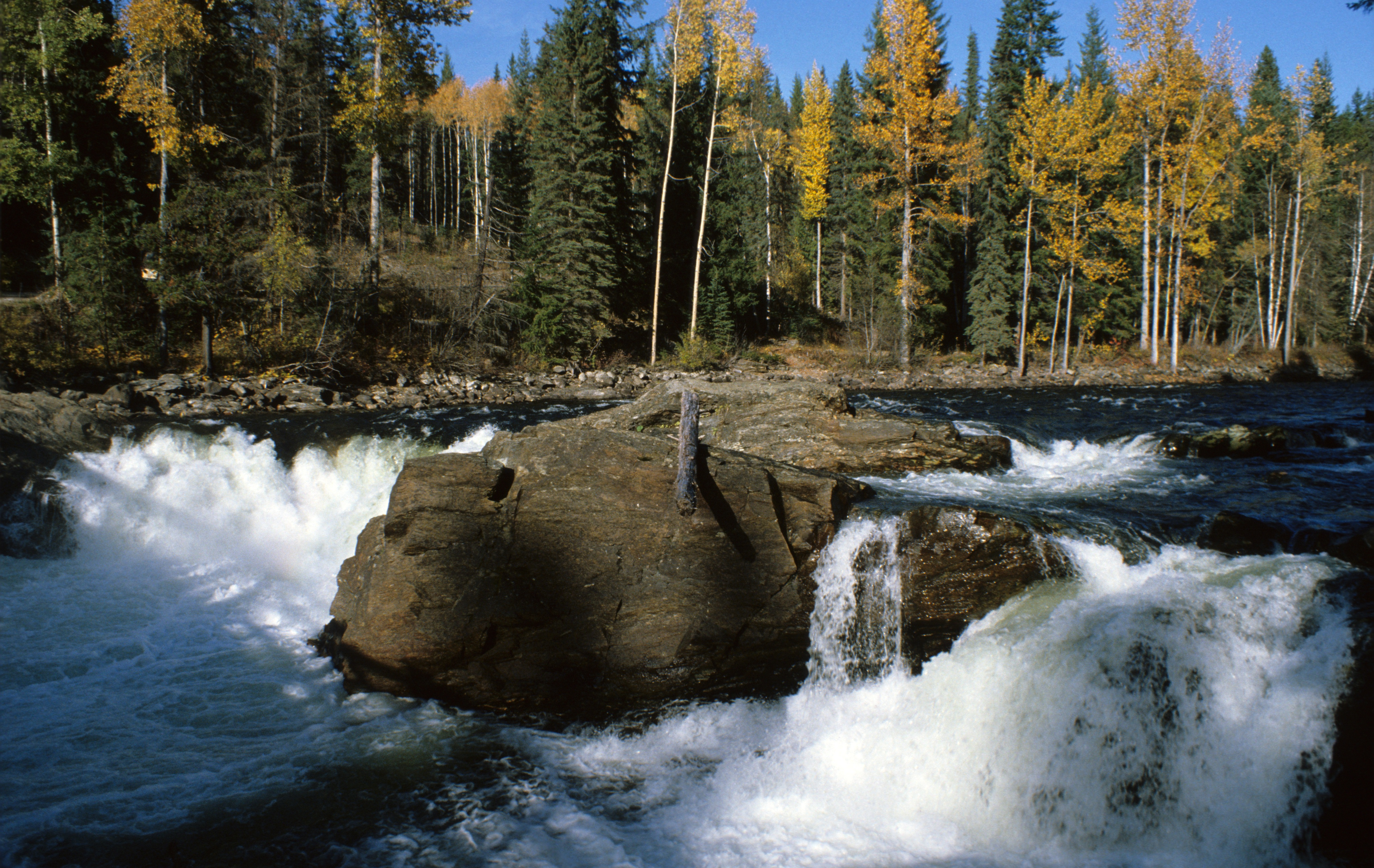 Photo taken by Roland Neave, contributor to Murtle River article, from personal image collection.